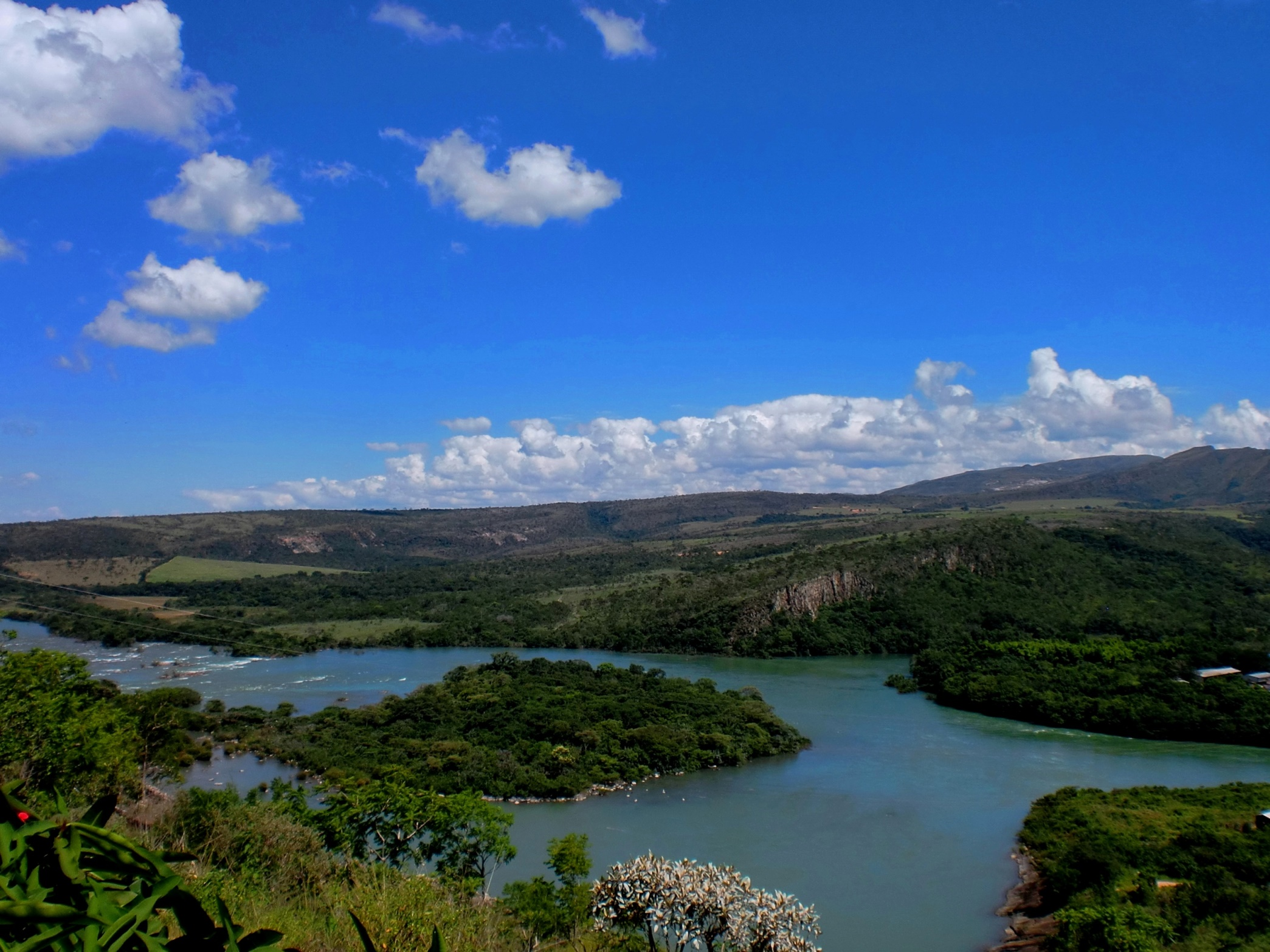 Around: National park "Serra da Canastra" and artificial lake "Mascarenhas de Moraes"